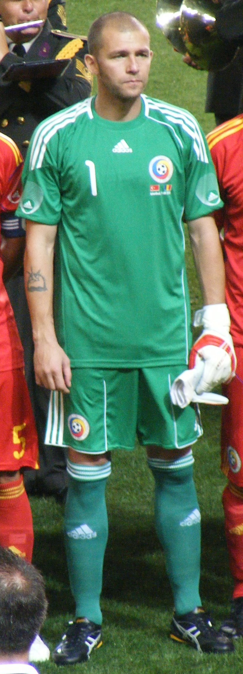 Bodgan Lobont in national jersey at match vs Turkey in 11st Aug 2010, Wednesday at Fenerbahce Stadium, Istanbul